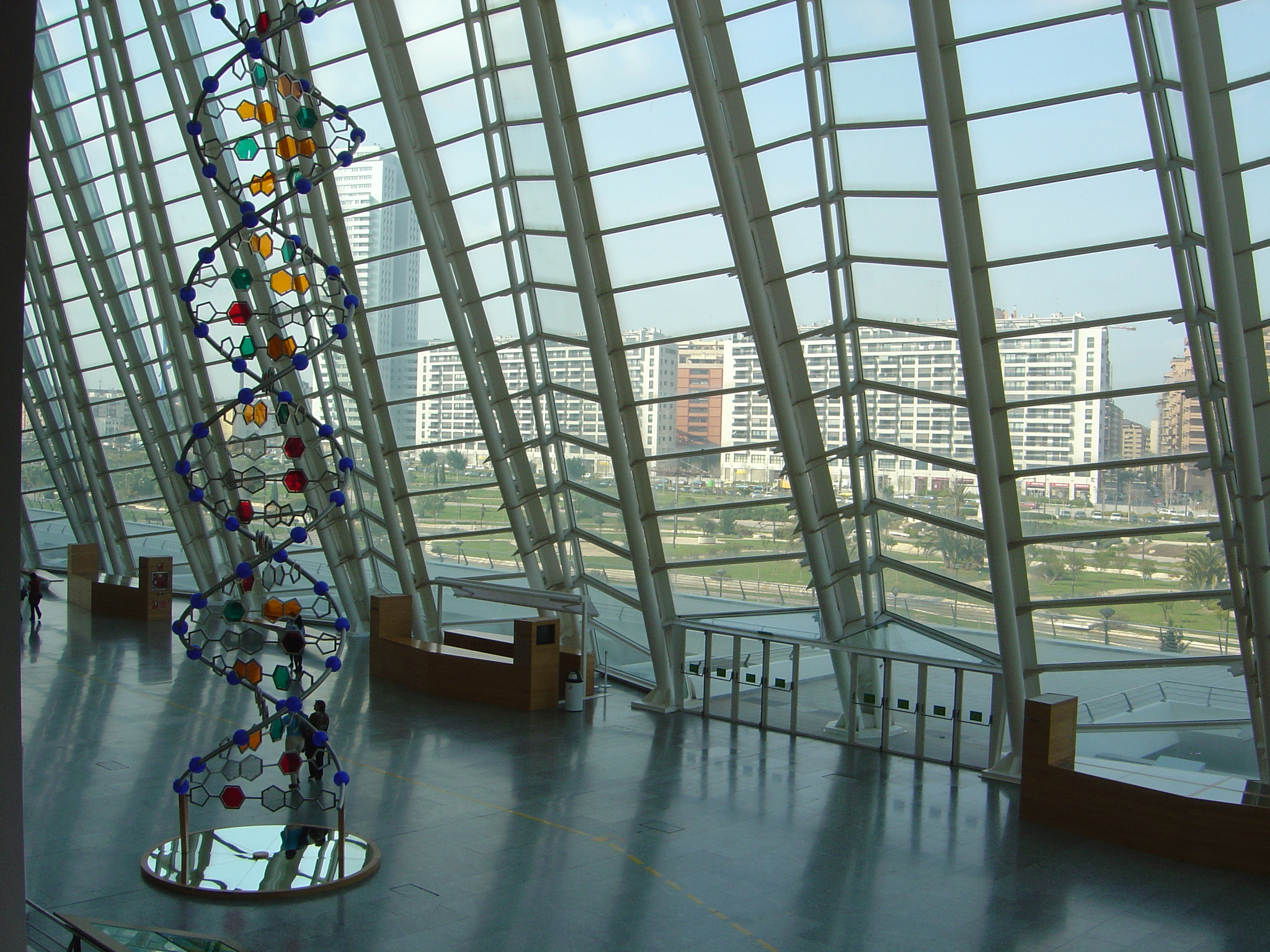 Science Museum of Valencia (Museo de las Ciencias Príncipe Felipe) from inside. Photograph by comakut.